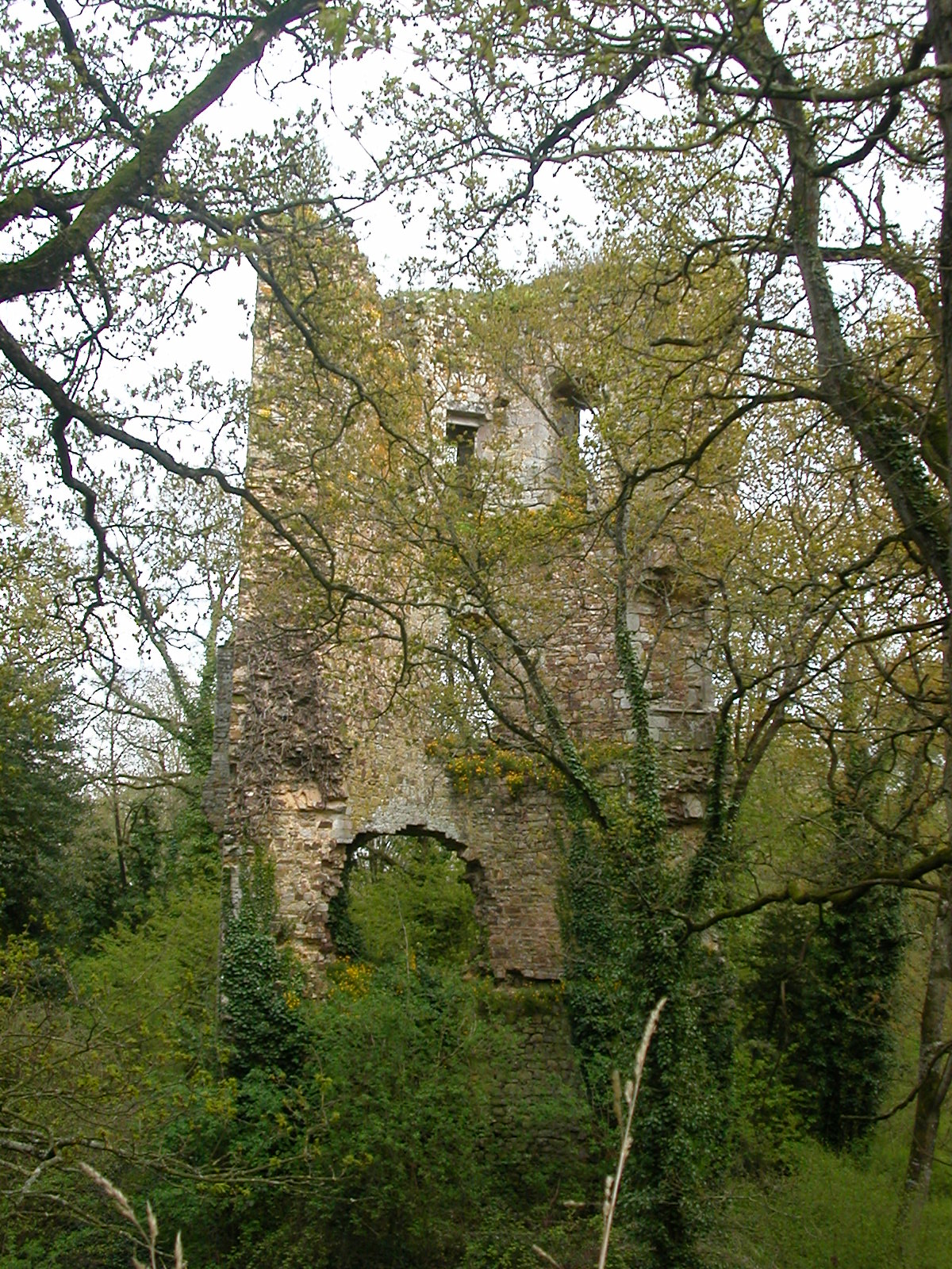 The Tour Saint-Clair, a ruined keep of the ancient castle in Derval